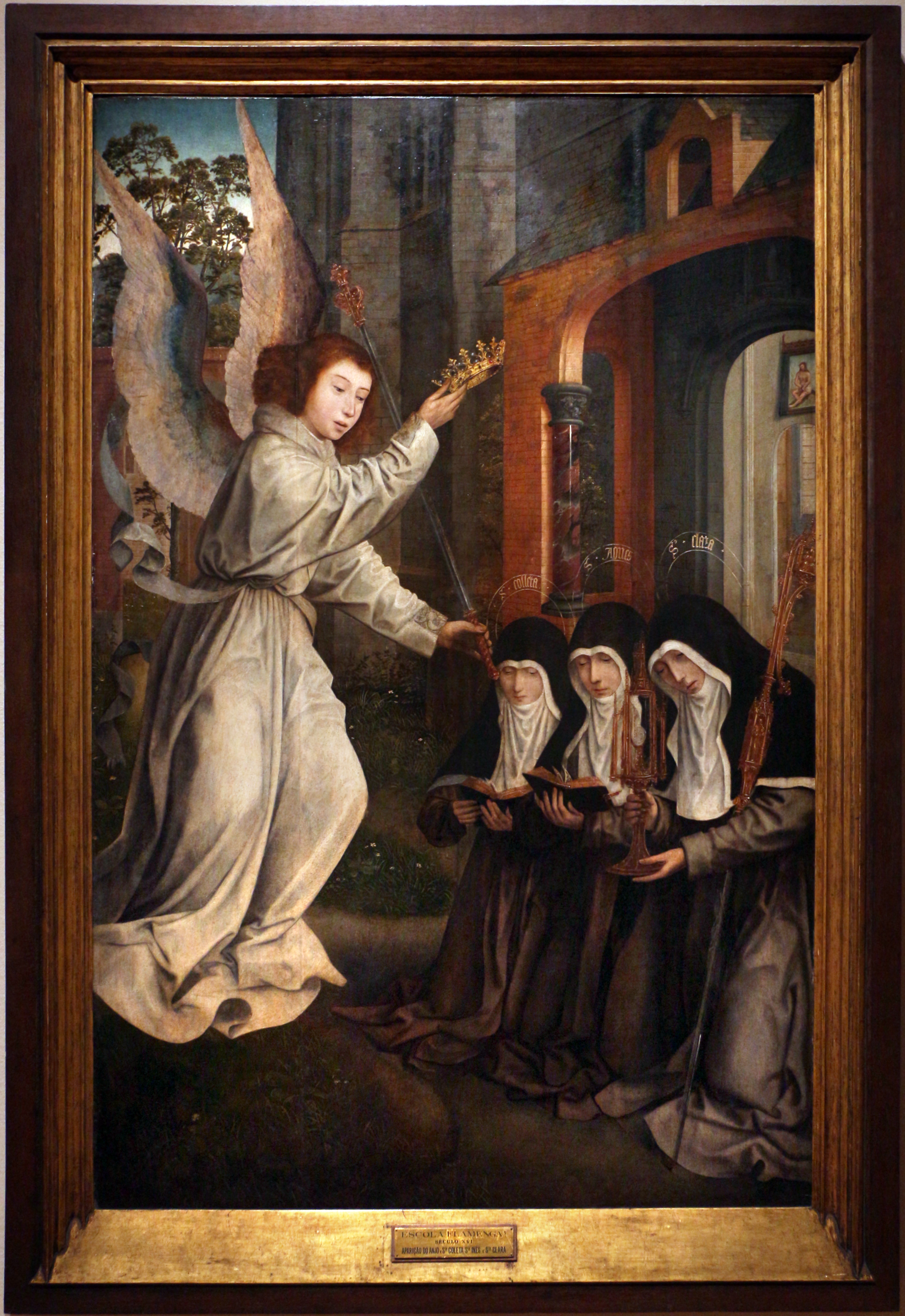 Flemish paintings in the Museu Nacional de Arte Antiga